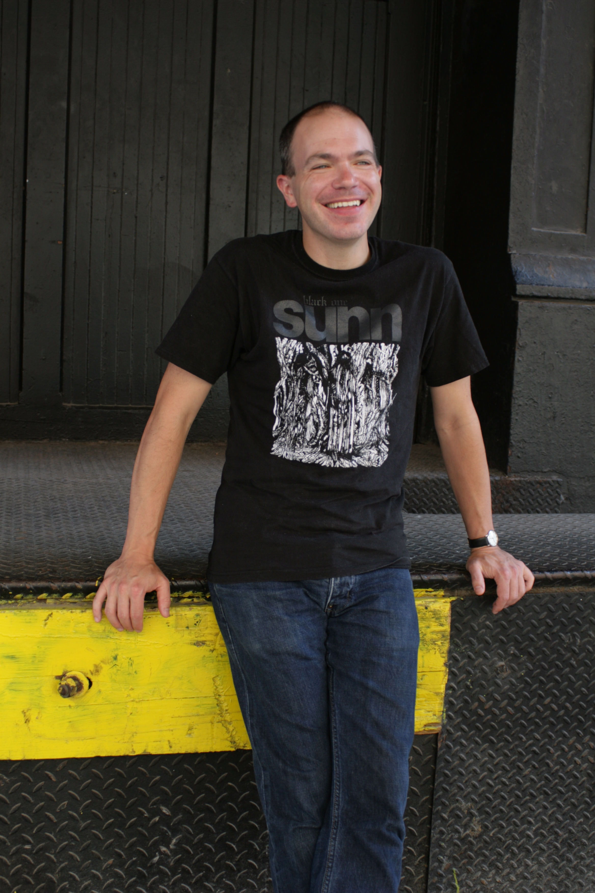 A portrait of Sasha Frere-Jones by Piera Gelardi.